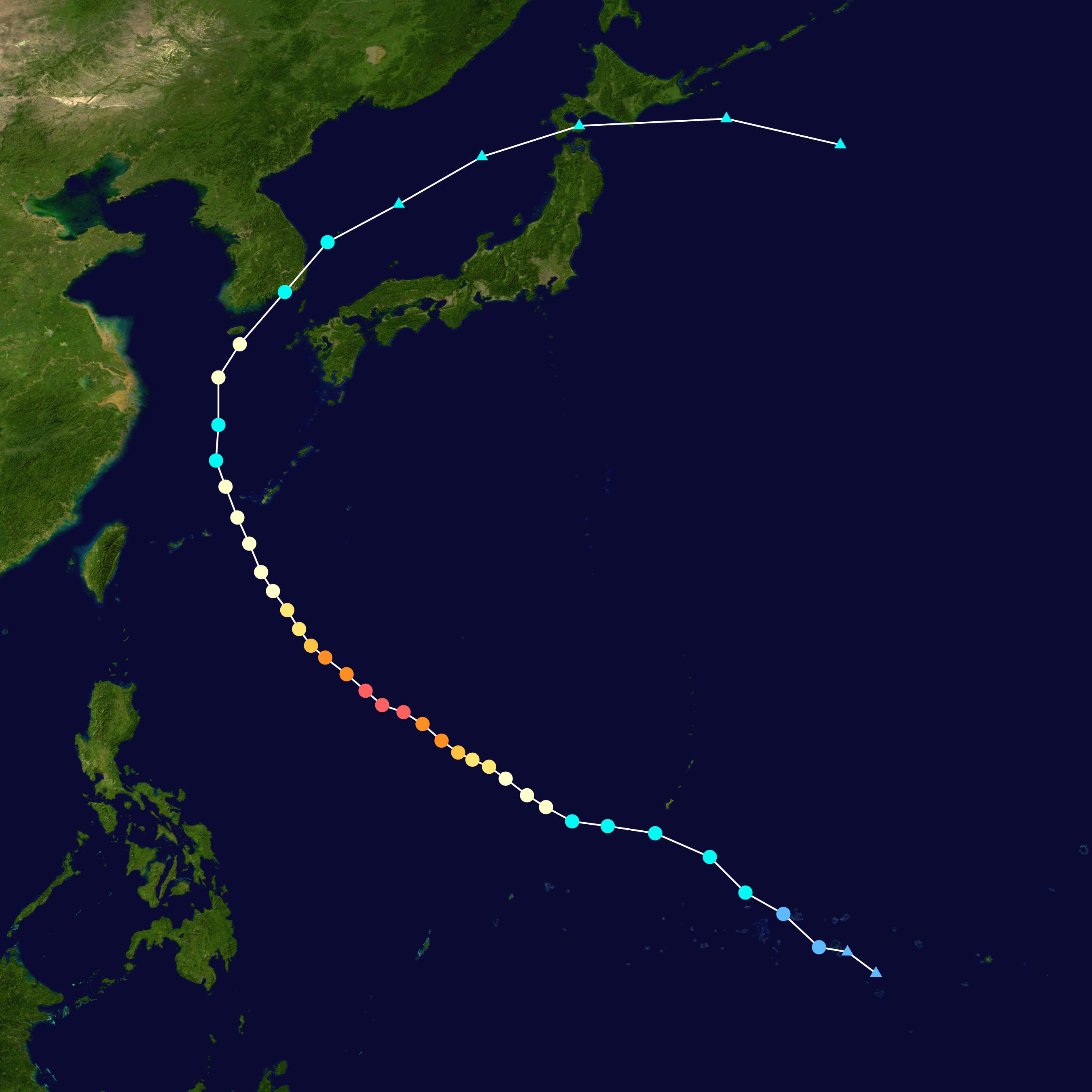 Track map of Typhoon Kong-rey of the 2018 Pacific typhoon season. The points show the location of the storm at 6-hour intervals. The colour represents the storm's maximum sustained wind speeds as classified in the Saffir–Simpson scale (see below), and the shape of the data points represent the nature of the storm, according to the legend below. Saffir–Simpson scale Tropical depression≤38 mph≤62 km/h Category 3111–129 mph178–208 km/h Tropical storm39–73 mph63–118 km/h Category 4130–156 mph209–251 km/h Category 174–95 mph119–153 km/h Category 5≥157 mph≥252 km/h Category 296–110 mph154–177 km/h Unknown Storm type Tropical cyclone Subtropical cyclone Extratropical cyclone / Remnant low / Tropical disturbance / Monsoon depression